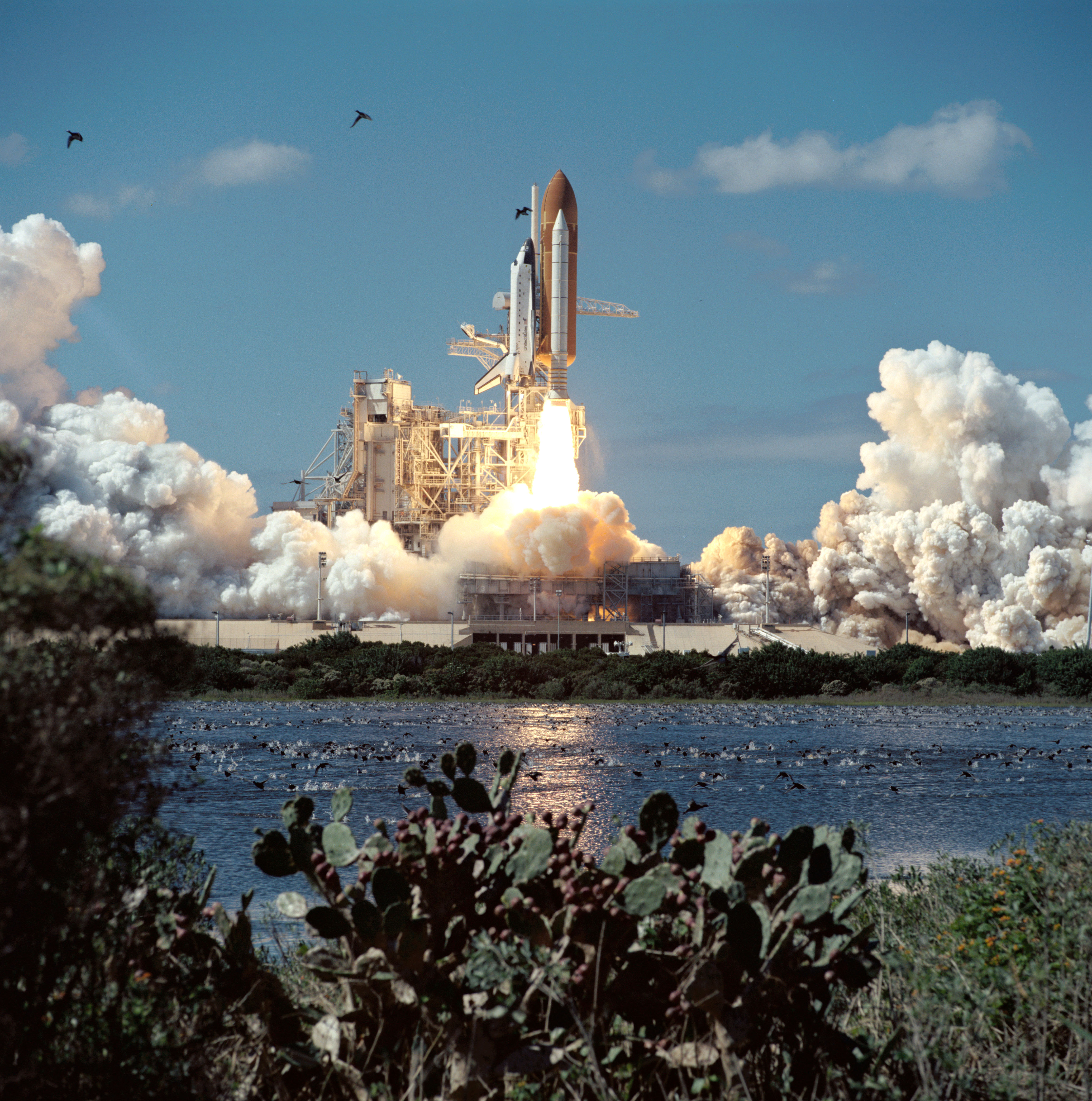 The Space Shuttle Atlantis returns to work after a refurbishing and a two-year layoff, as liftoff for NASA's STS-66 occurs at noon (EDT), November 3, 1994. A 70mm camera was used to record the image. Note the vegetation and the reflection of the launch in the water across from the launch pad.